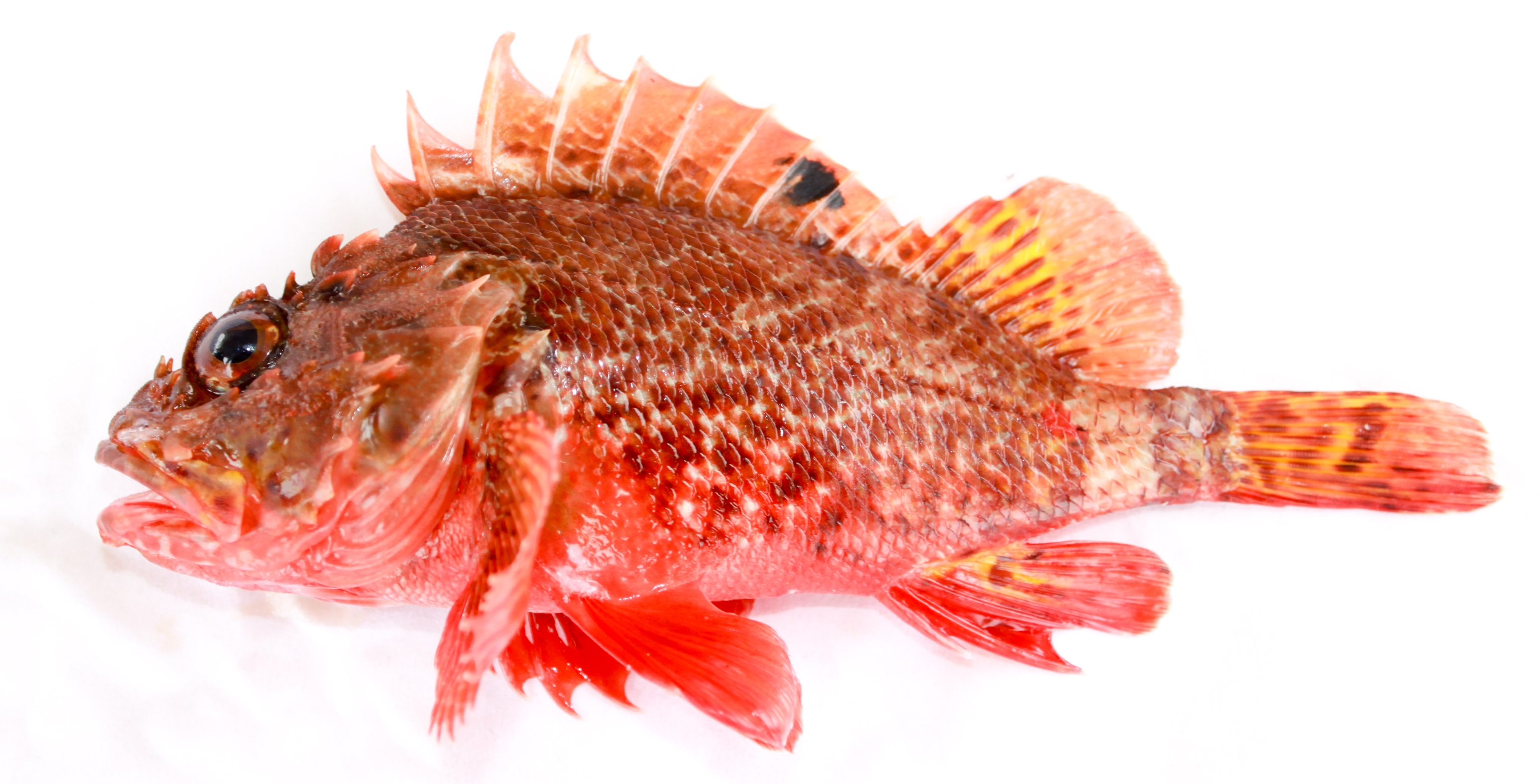 Scorpaena papillosa (Schneider & Forster, 1801) Red Rockcod, or red scorpionfish